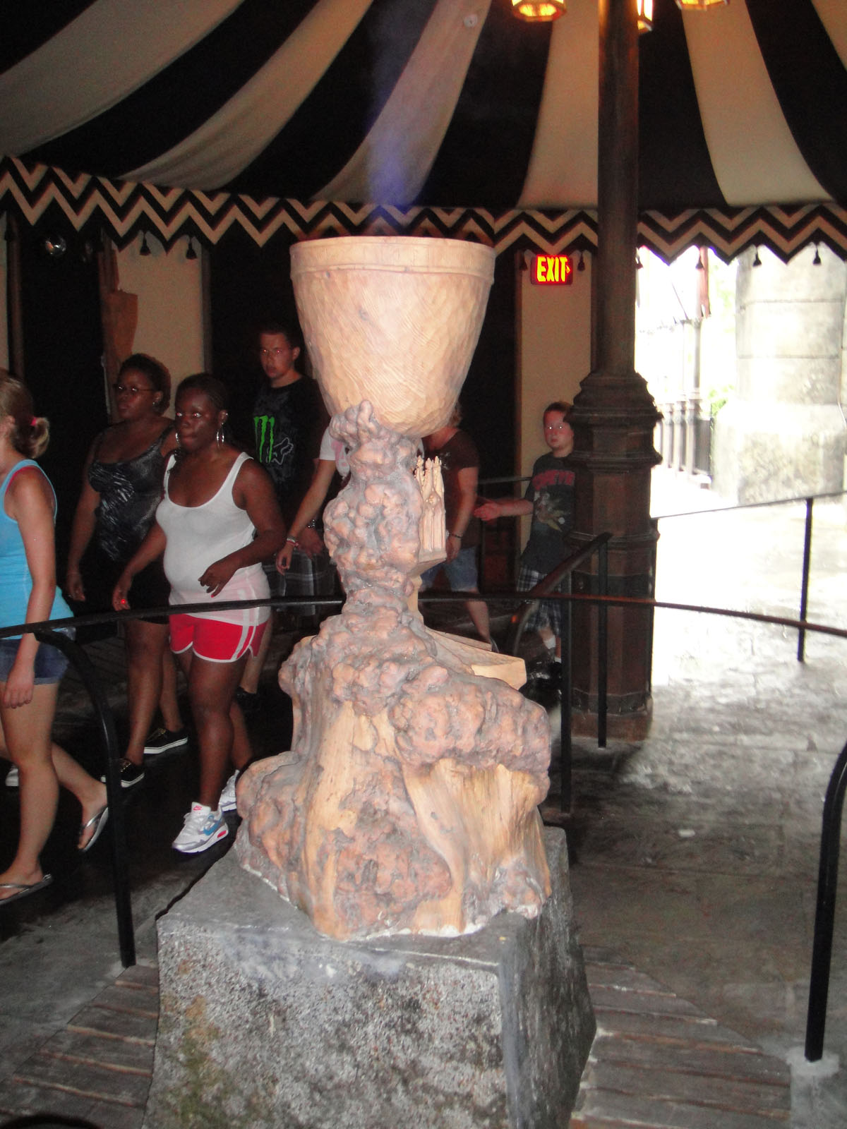 Wizarding World of Harry Potter - entrance to the Goblet of Fire Dragon Challenge ride